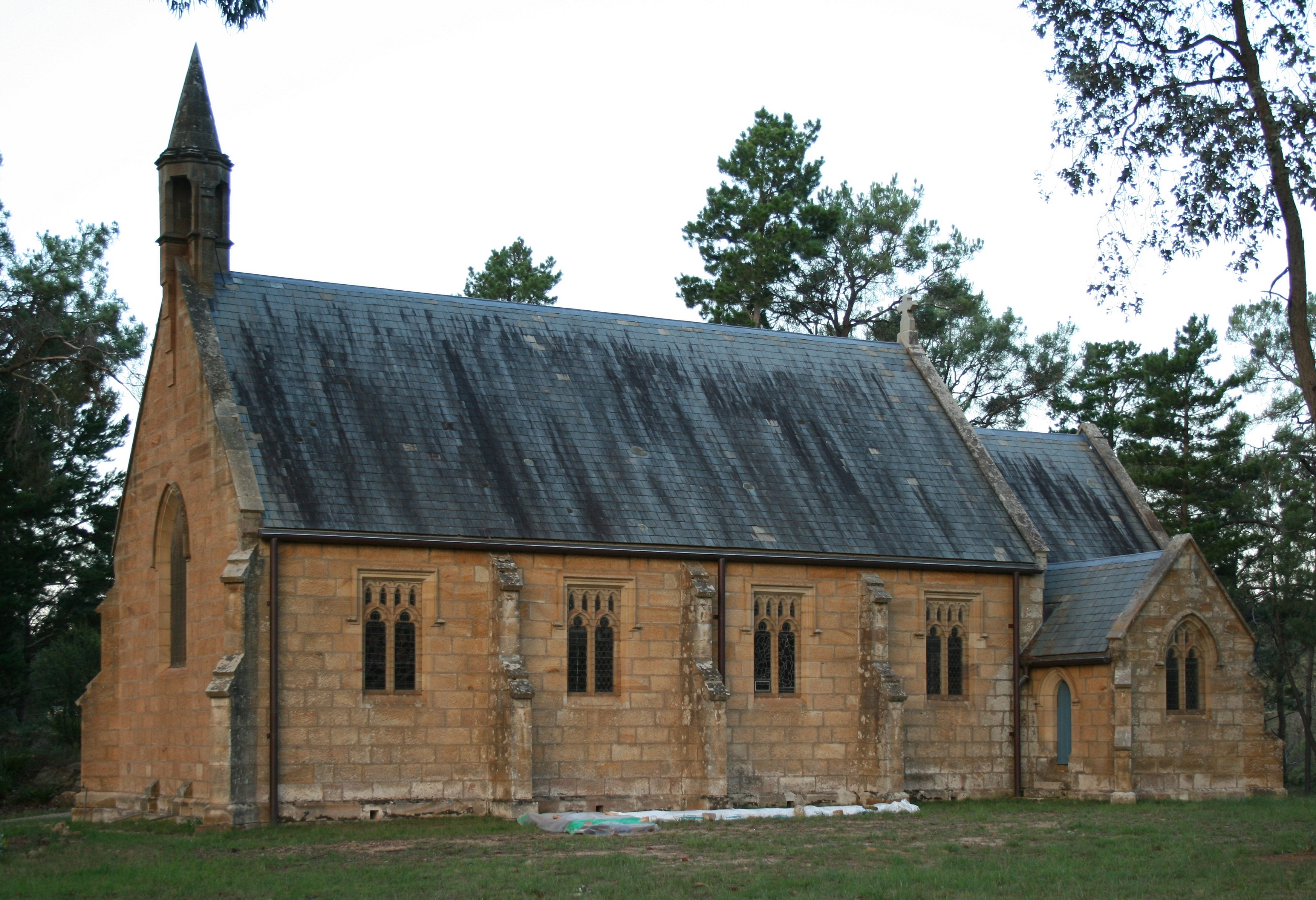 Holy Trinity Anglican Church in Berrima, New South Wales (NSW), Australia. Designed by Edmund Blacket.